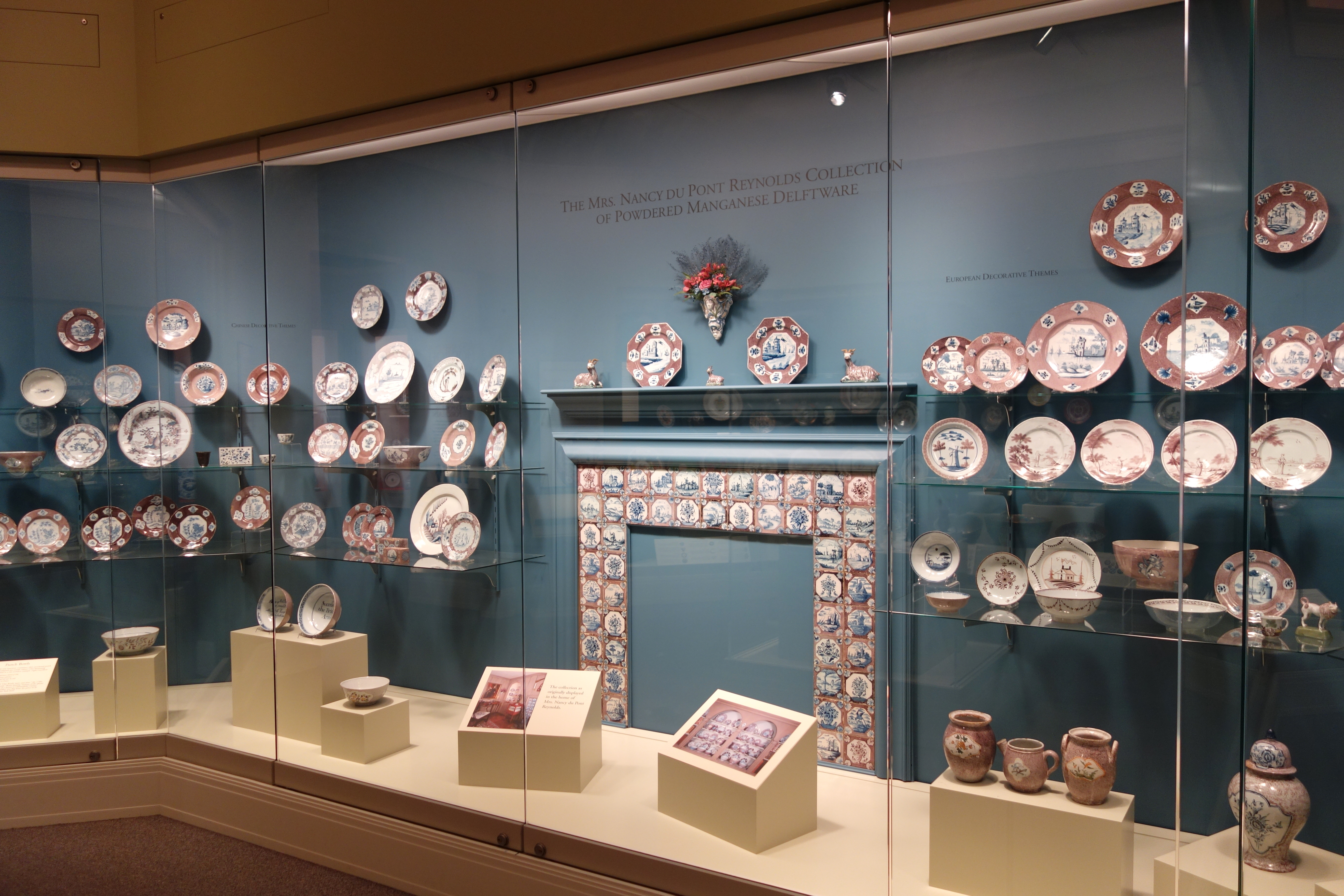 Exhibit in the Winterthur Museum, New Castle County, Delaware, USA. This work is in the public domain because the artist died more than 70 years ago.